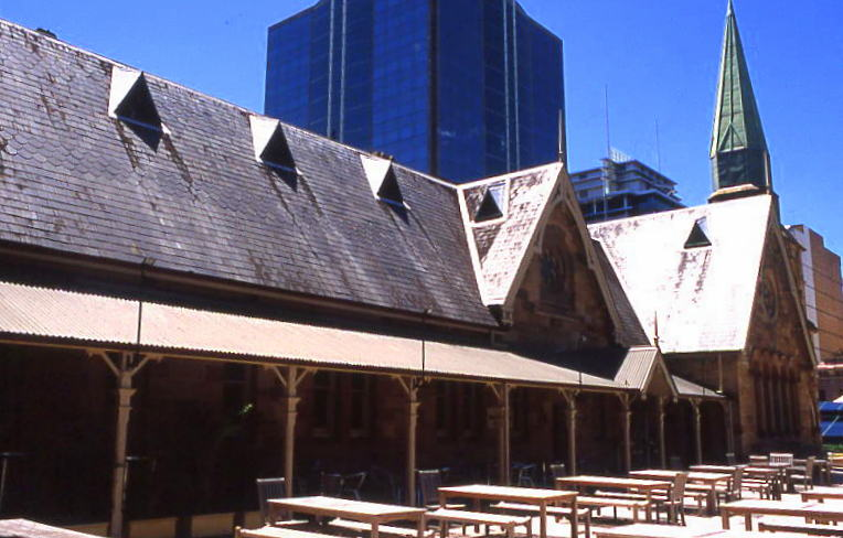 Former technical college, now Greenwood Hotel, North Sydney, Sydney (image has been altered by User:Sardaka to eliminate tilt and increase saturation, 2015-6-27) (slide scanned at 600)